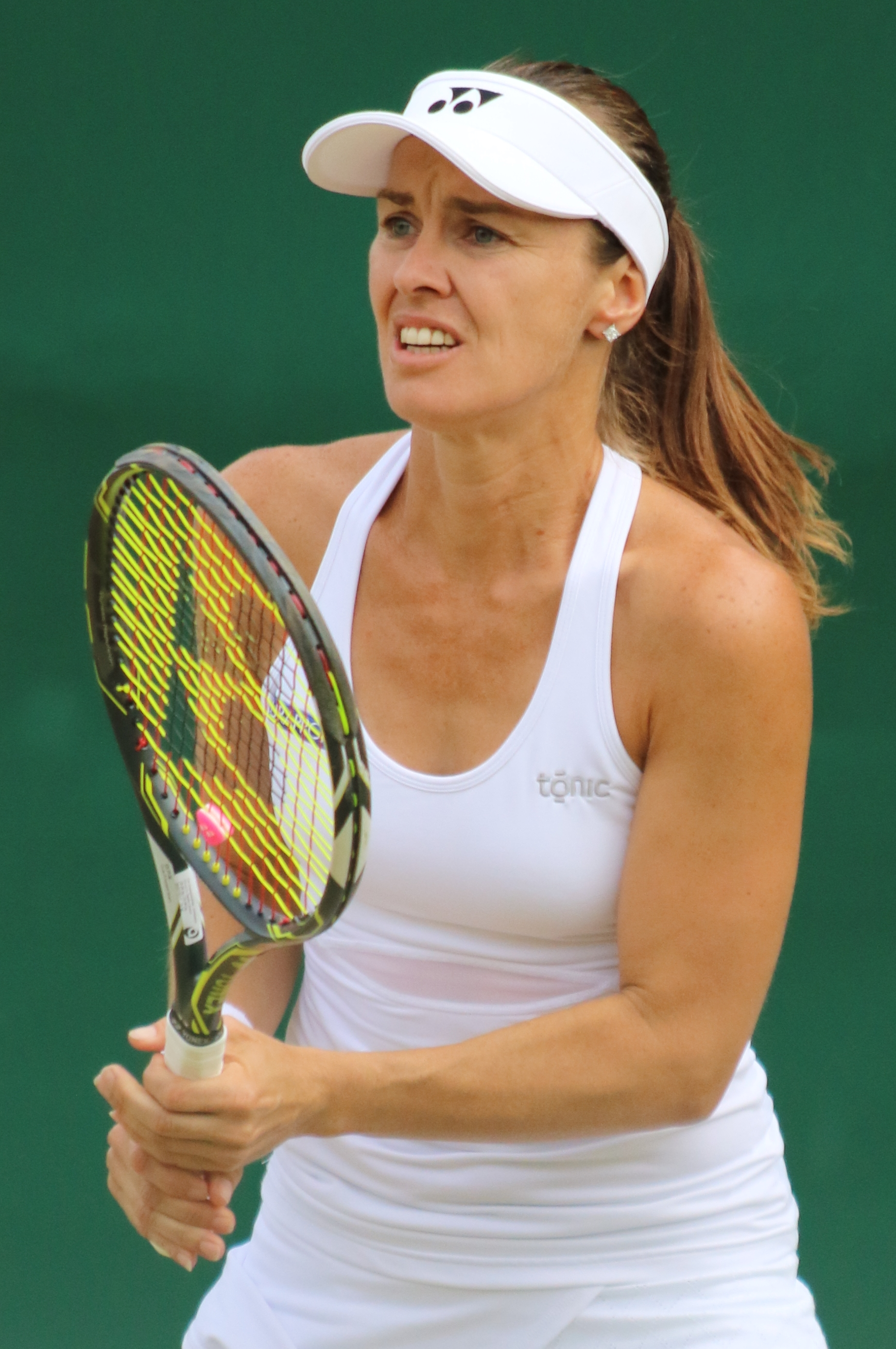 Hingis WM17 (7)